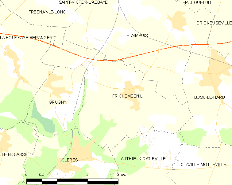 Map of French municipality Frichemesnil